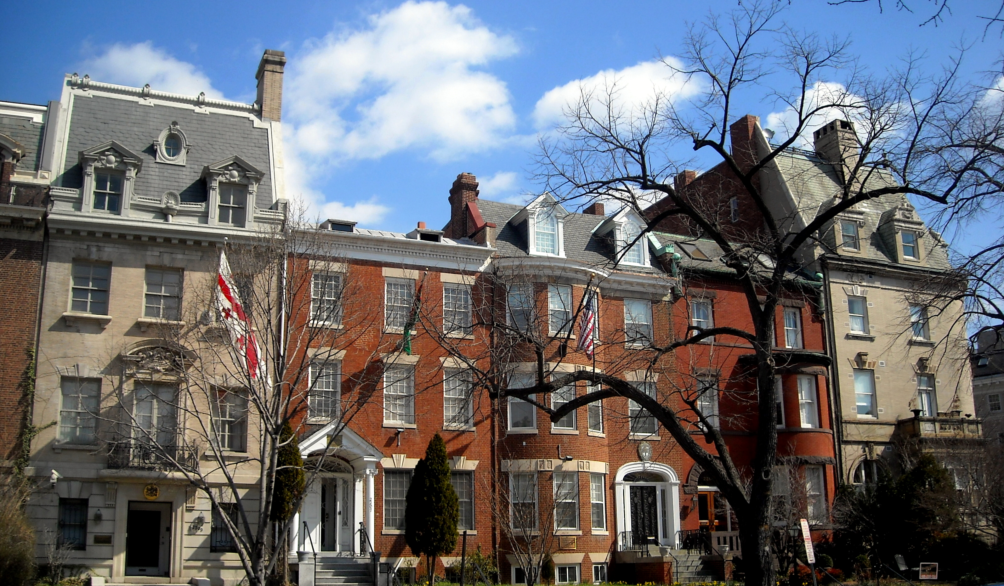 Buildings located on Embassy Row at 2201-2209 Massachusetts Avenue, N.W., in the Sheridan-Kalorama neighborhood of Washington, D.C. From right to left: 2201 - Argyle Terrace Condominium; also known as the Frederick A. Miller House; built in 1900; designed by Paul J. Pelz; Beaux-Arts architecture 2203 - private residence; built around 1900 2205 - National Society of the Daughters of the American Colonists headquarters; Colonial Revival architecture 2207 - Embassy of Turkmenistan; built around 1900 2209 - Embassy of Georgia - built in 1911; Beaux-Arts architecture Contributing properties to the Sheridan-Kalorama Historic District and Massachusetts Avenue Historic District, both listed on the National Register of Historic Places in Washington, D.C.